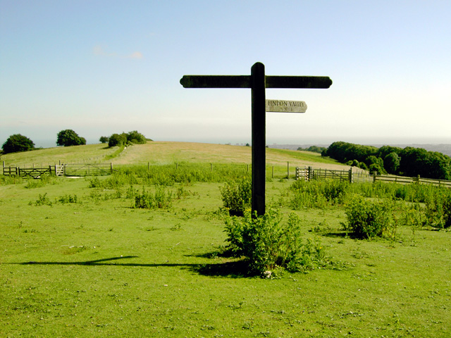 Signpost south of Cissbury Ring Looking south across Mount Carvey to the sea.